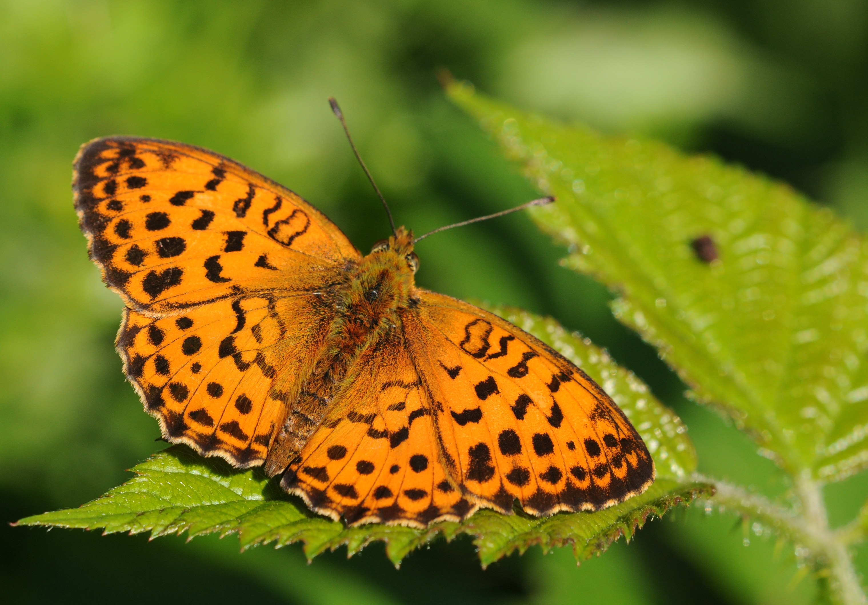 Wing upperside view of a Marbled Fritillary (Brenthis daphne) butterfly. Derekoy, Kirklareli, Turkey. 450 m.